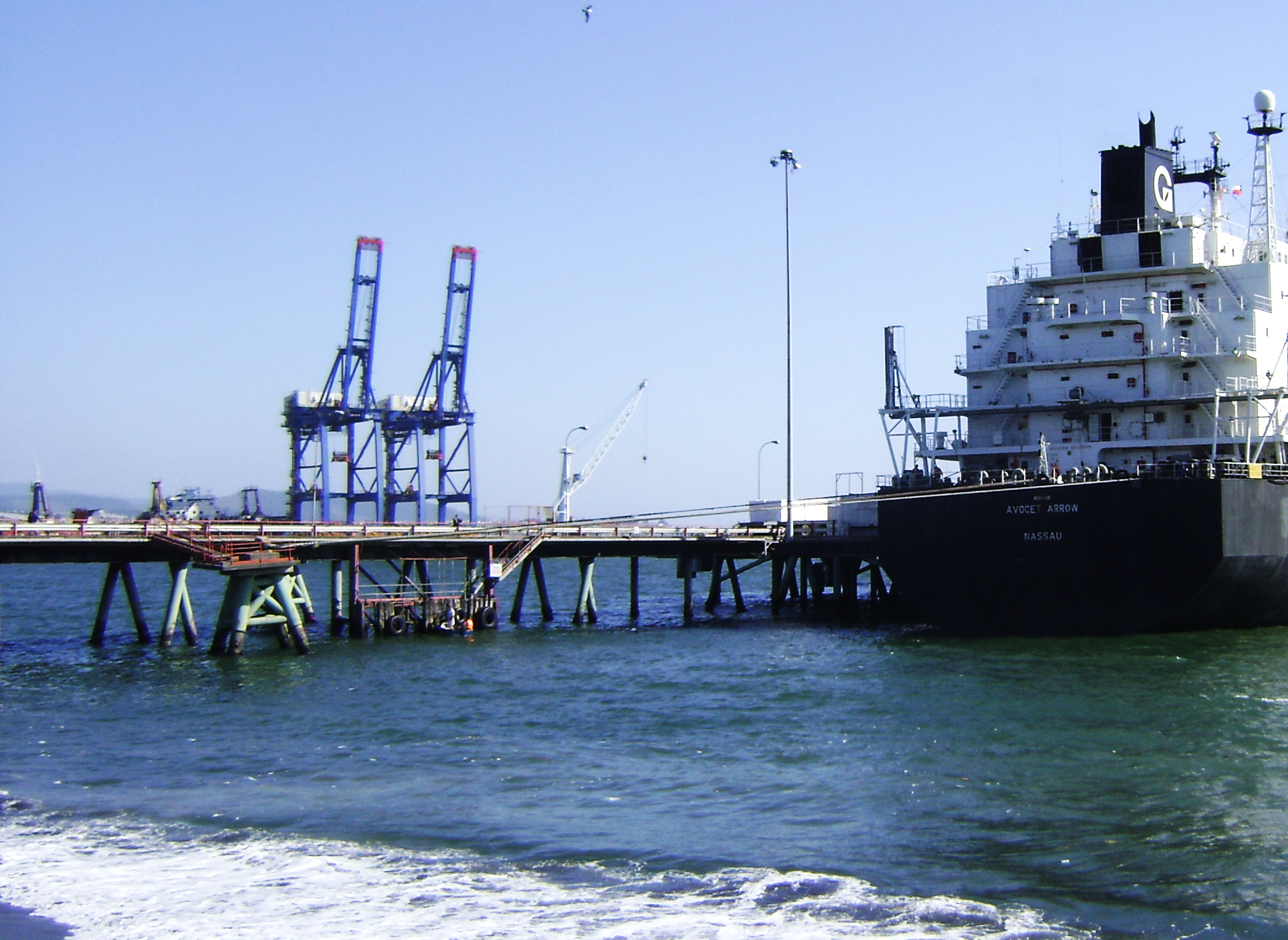 Coronel Port, Chile